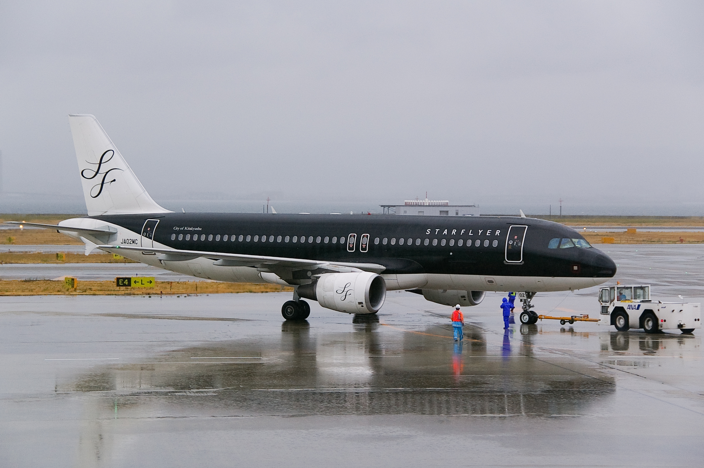 Photograph of StarFlyer's Airbus A320-200 (JA02MC) taken from the departure lounge of Kansai International Airport passenger terminal building in Izumisano, Osaka Prefecture, Japan.